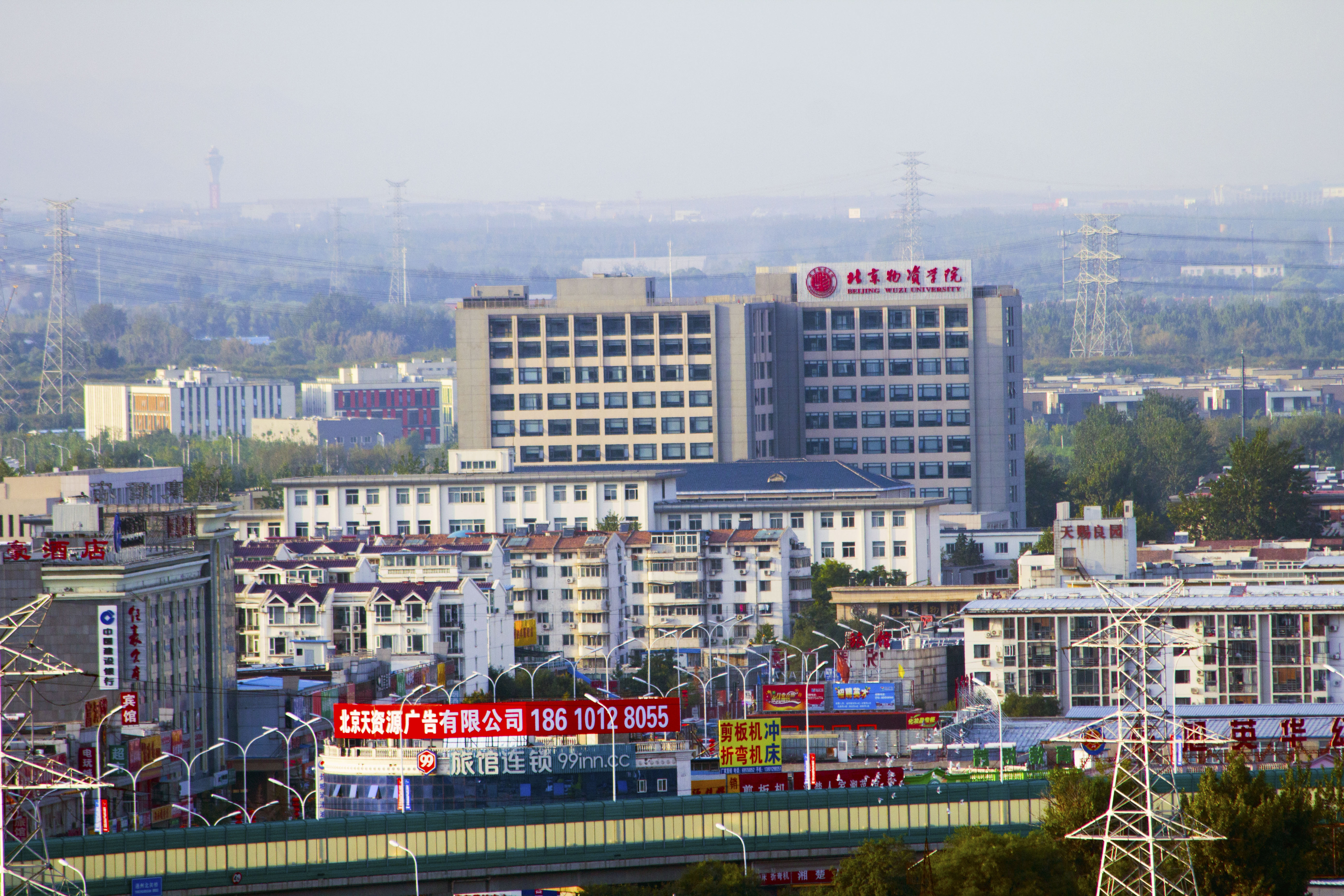 Beijing Wuzi University. original crop1 crop2